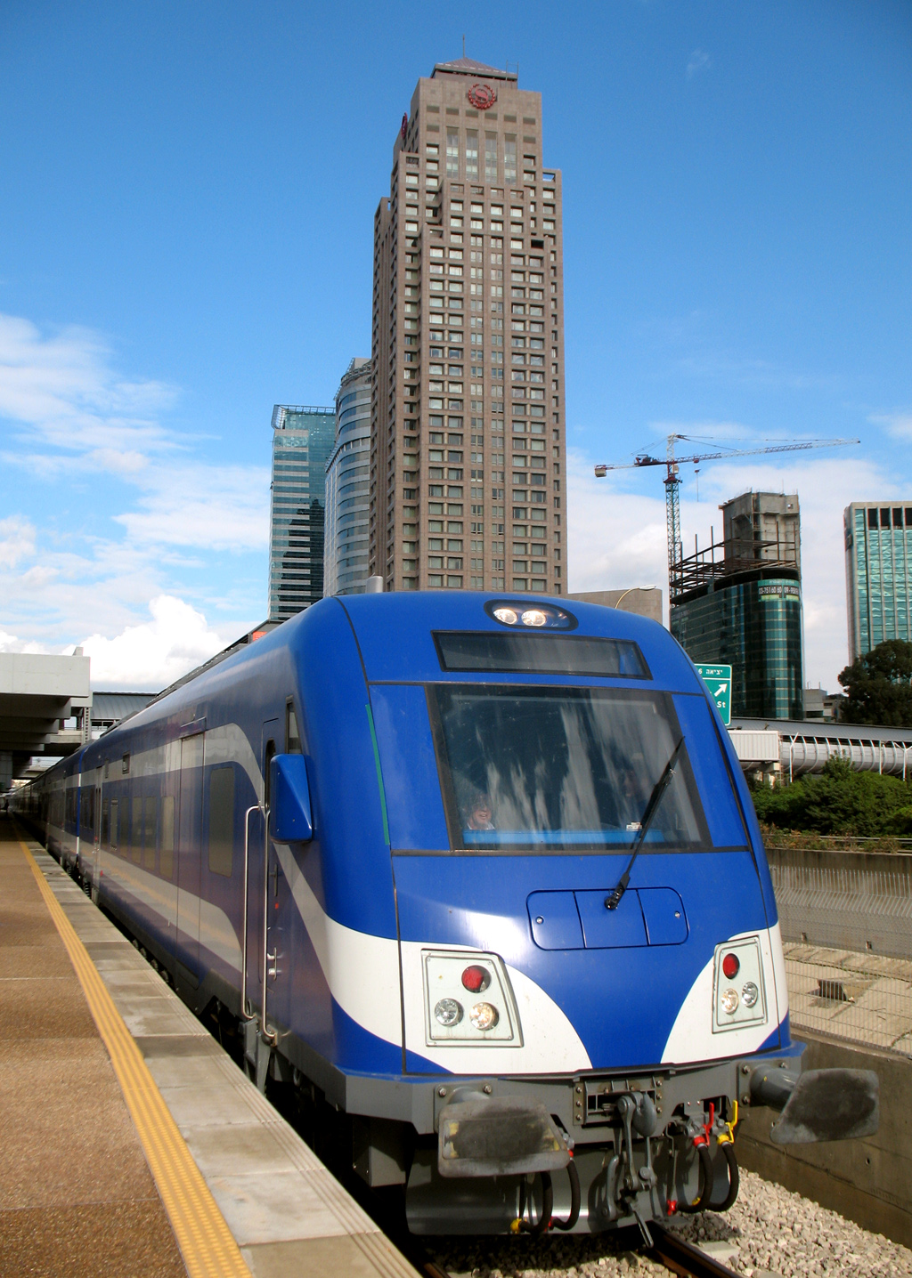 Israel Railway Siemens Viaggio light train at the Tel Aviv Central Train Station; Tel Aviv, Israel.